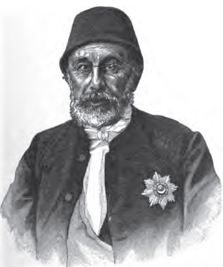 Taken from "A history of all nations from the earliest times" by John Henry Wright published by Lea Brothers & Co. in 1906 Philadelphia and New York. John Henry Wright died in 1908 more than 70 years ago.